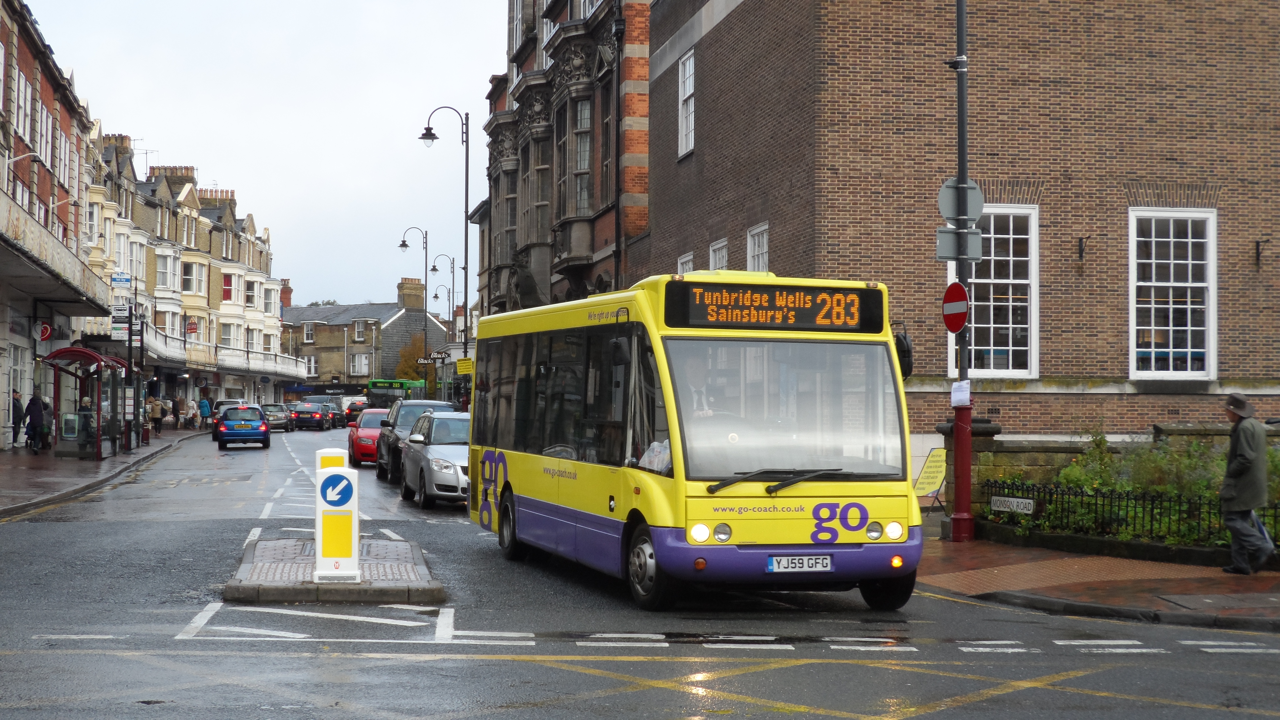 Go-Coach Hire YJ59 GFG, an Optare Solo, in Monson Road, Tunbridge Wells, Kent on route 283.